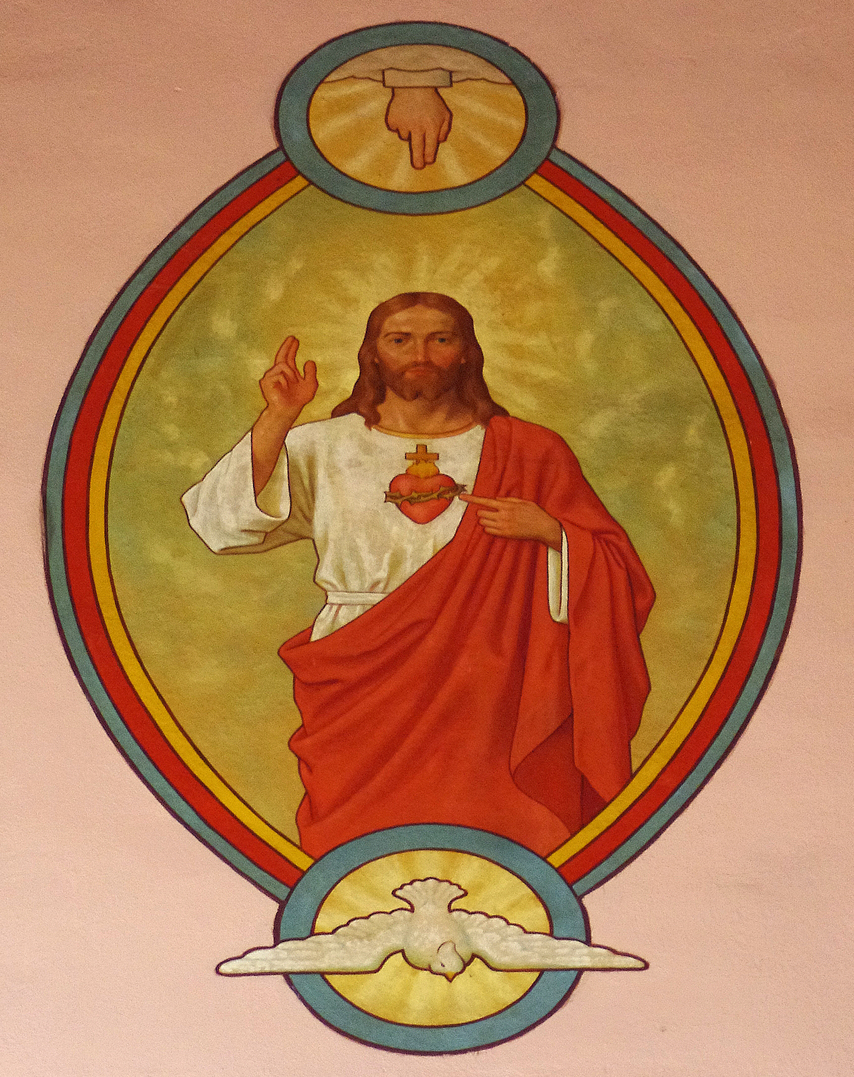 Holy Trinity: Father (hand), Son (Jesus Christ), and the Holy Spirit as a dove.